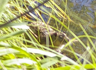 Hydromys chrysogaster, known as a Rakali or Water rat.